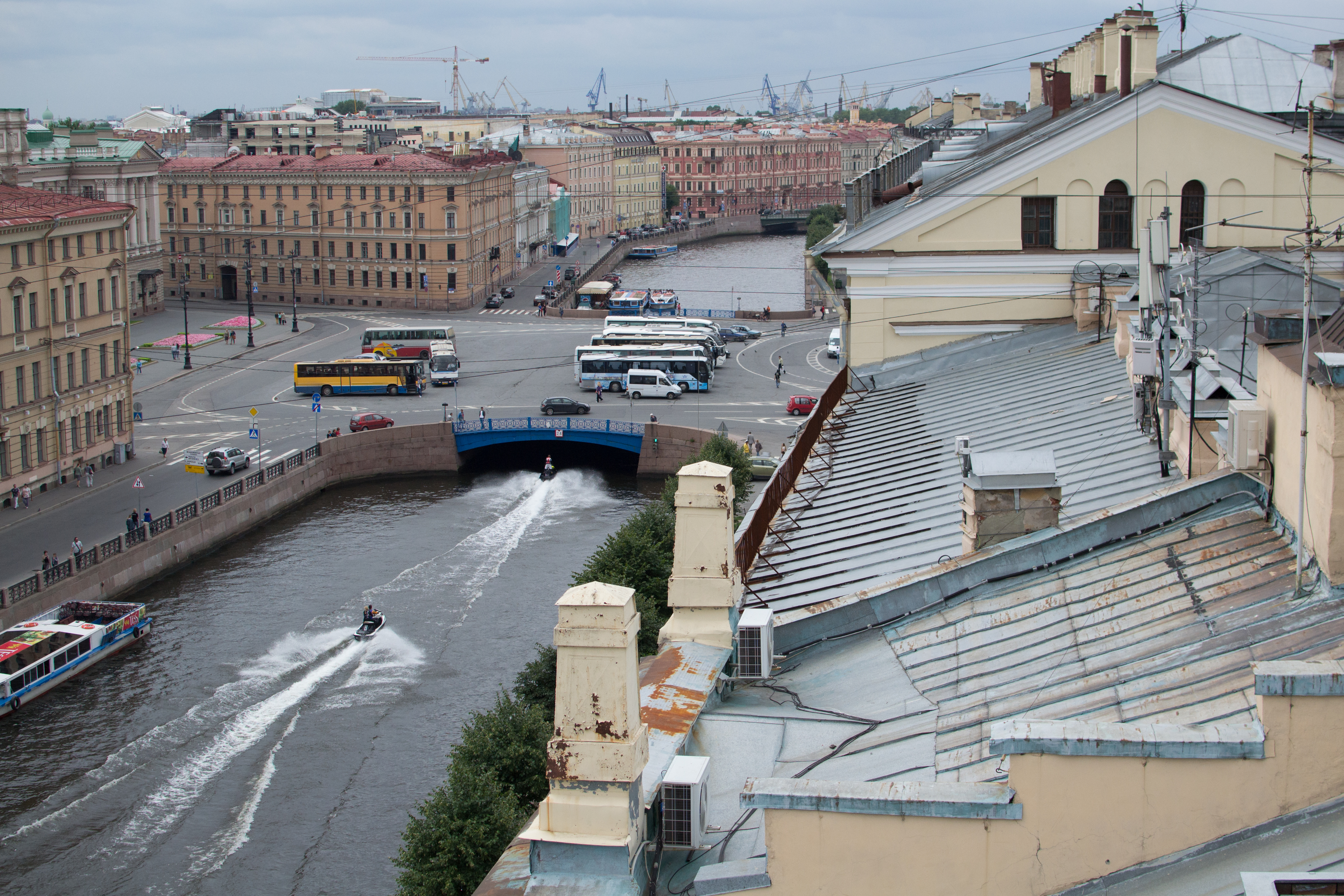 Admiralteysky District, St Petersburg, Russia